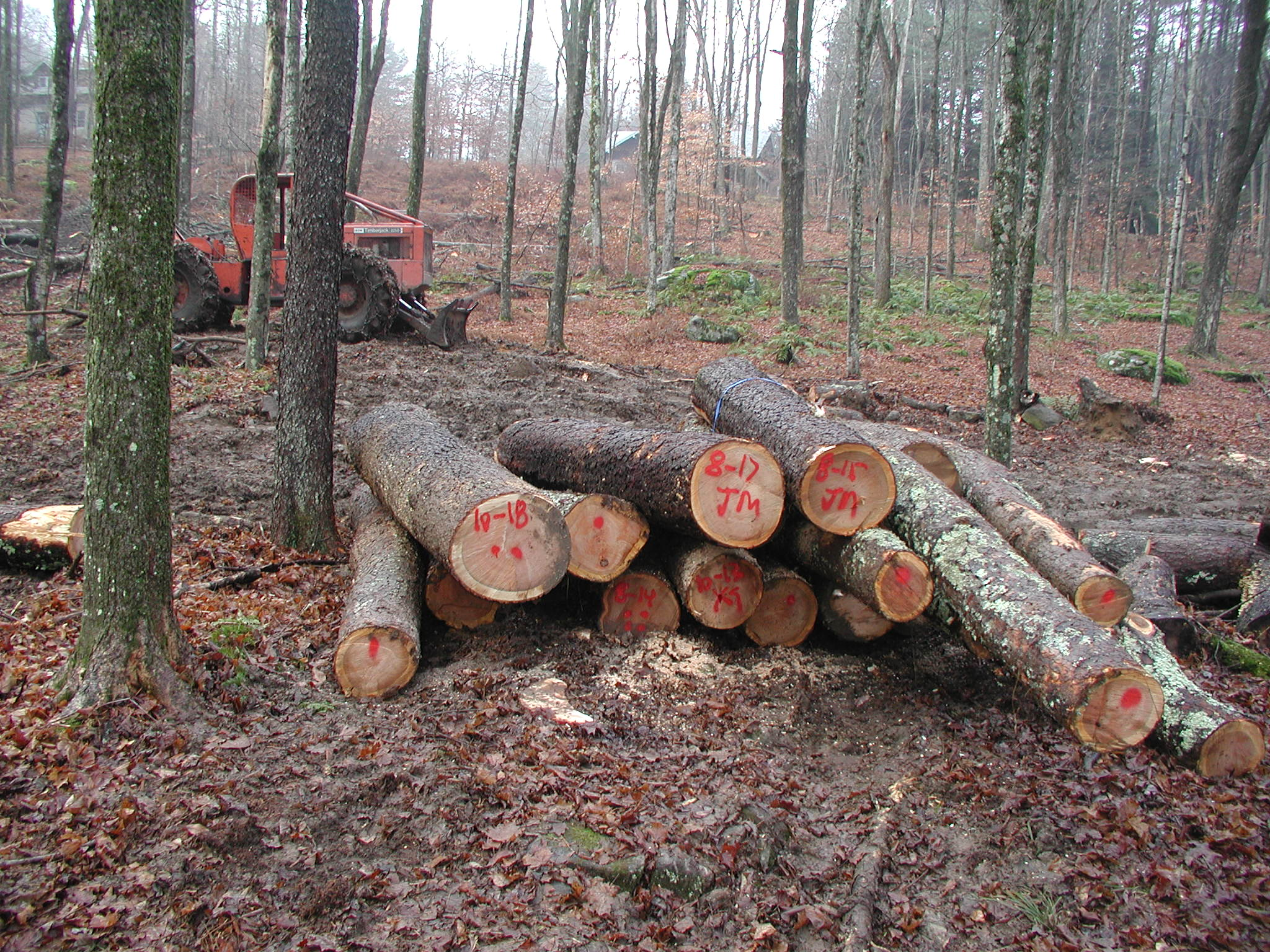 Eaton Timberjack 225 D skidder, graded black cherry logs, Catskills (Catskill Mountains), USA.